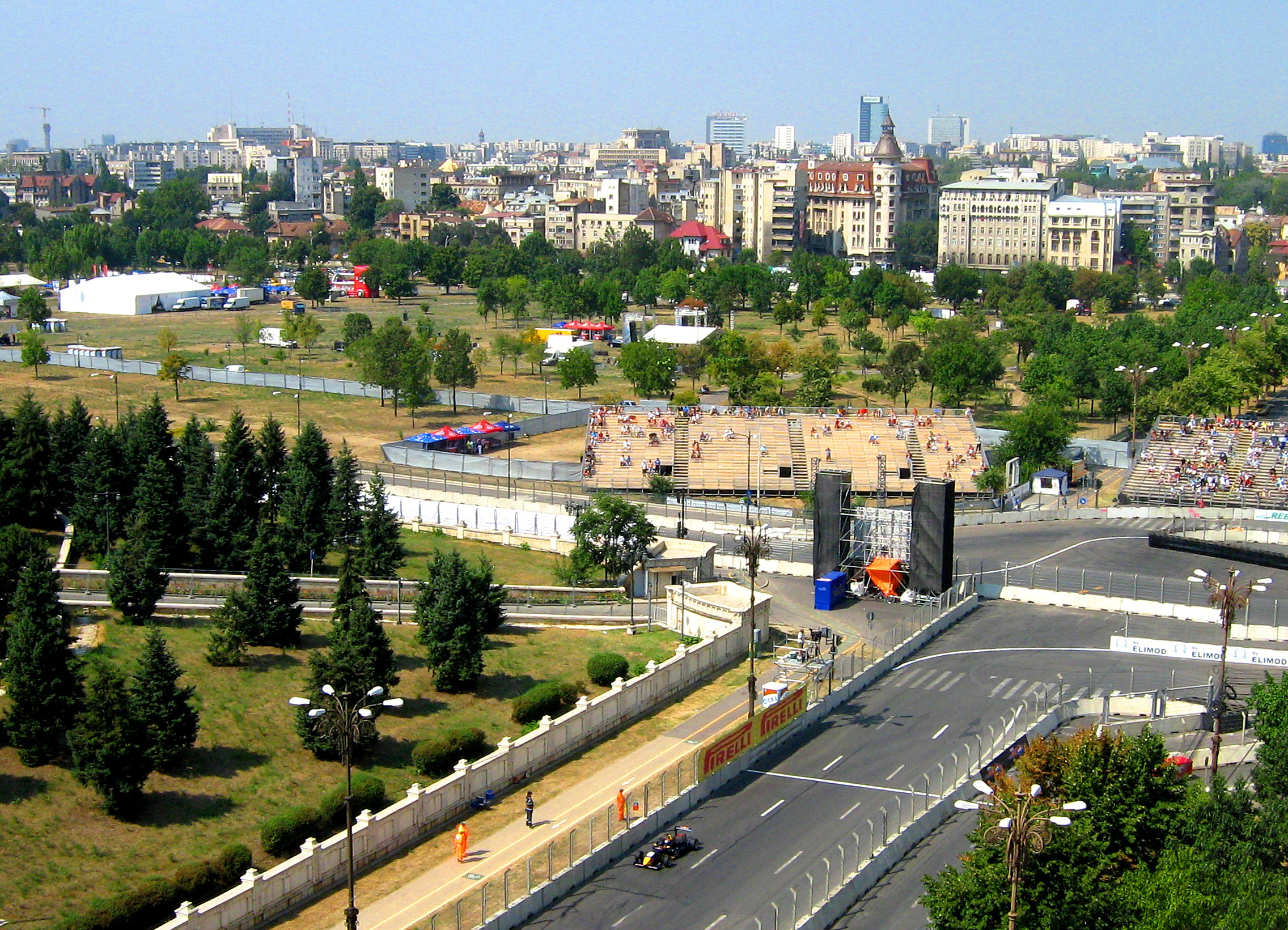 Bucharest City Challenge 2008, on Bucharest Ring for 2008 British Formula Three season